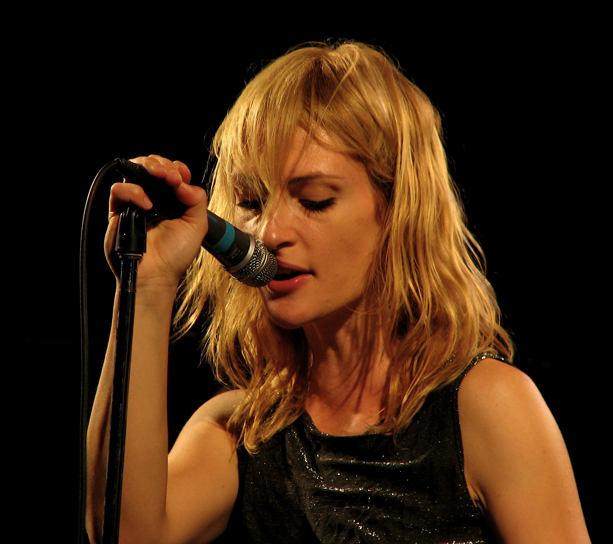 Emily Haines